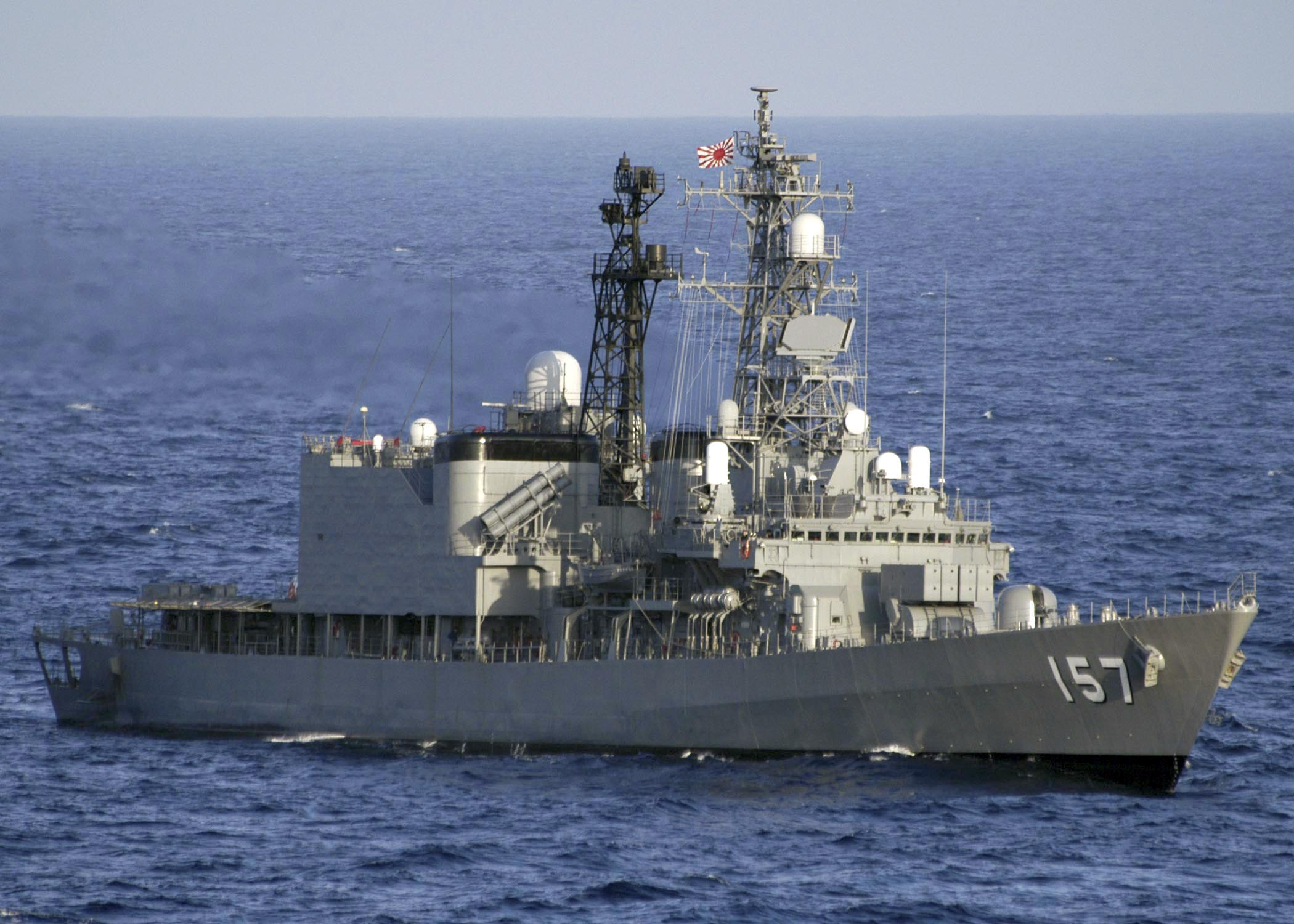 Pacific Ocean (Dec. 18, 2004) — The Japanese Self-Defense Force (JSDF) destroyer JDS Sawagiri (DD 157) maneuvers alongside USS Abraham Lincoln (CVN-72) while preparing for a joint exercise. Lincoln and Carrier Air Wing Two (CVW-2) are currently deployed to the Western Pacific Ocean on a scheduled deployment. Carrier Strike Group Nine (CSG-9) is the first to be used in the surge role in support of the Chief of Naval Operations Fleet Response Plan (FRP).